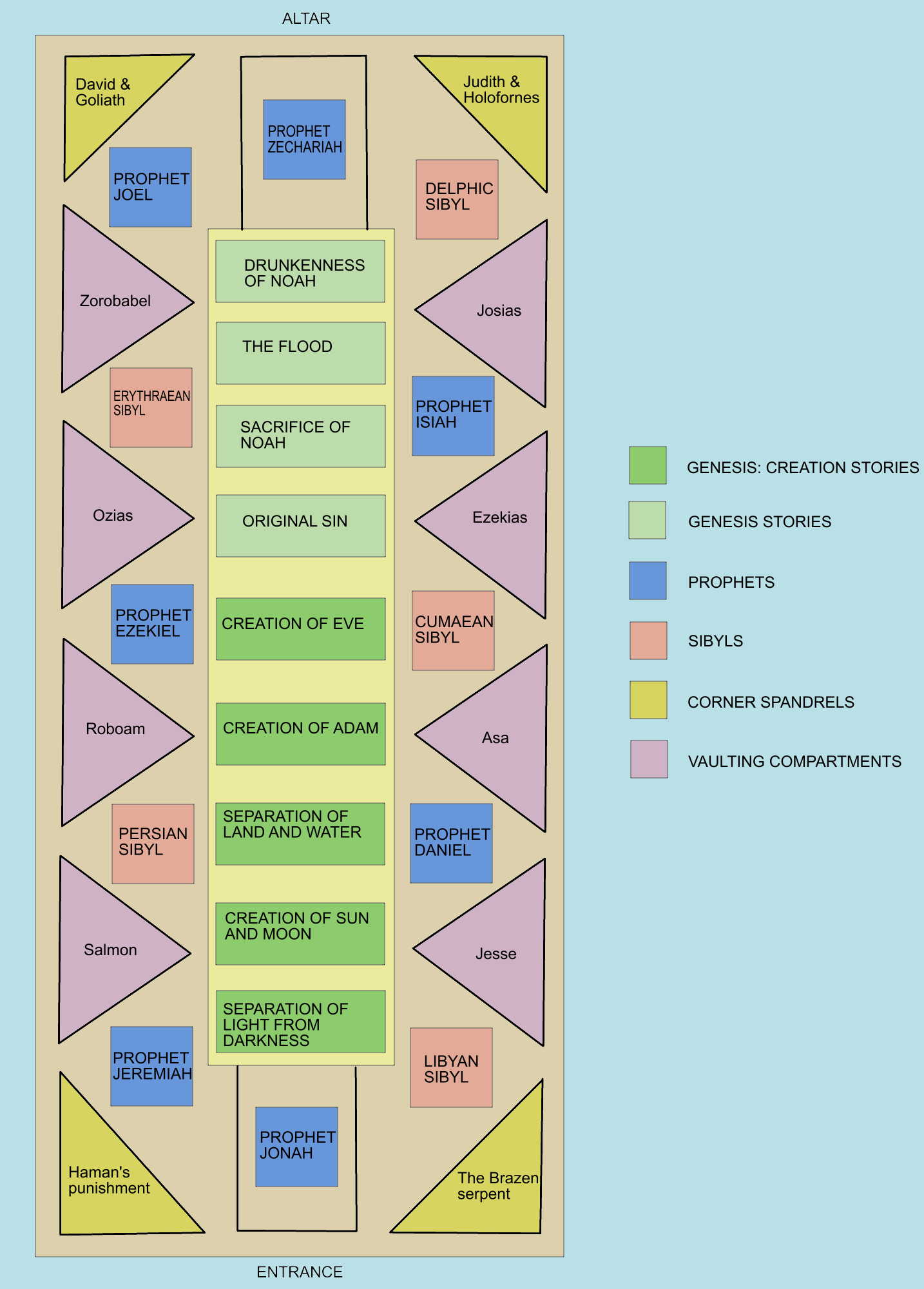 Rough diagram of Sistine Chapel ceiling, shows location of Genesis stories, prophets, sibyls, and other paintings. I made the image Note that some of the Genesis stories are slightly out of alignment with the prophets & sibyls: At the top the following should align: Prophet Joel-Drunkenness of Noah-Delphic sibyl. At the bottom Jeremiah-separation of light from darkness-Libyan should align. It is more correct towards the centre. NOTE: This diagram marks the entrance and the altar at the wrong ends. There is a more accurate diagram available on Wikimedia commons at Image:Sistine Chapel ceiling diagramA1.PNG